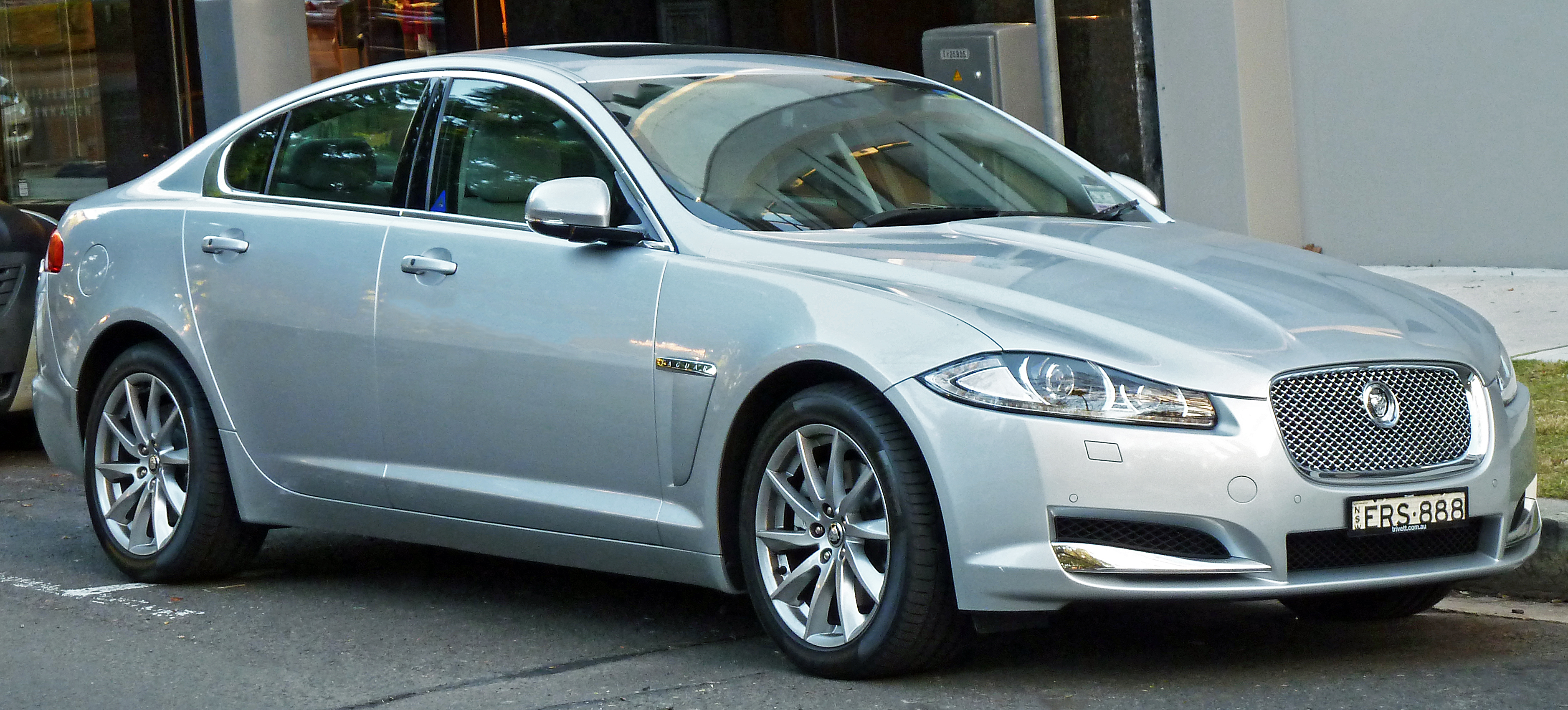 2011 Jaguar XF (X250 MY11) sedan. Photographed in Double Bay, New South Wales, Australia.